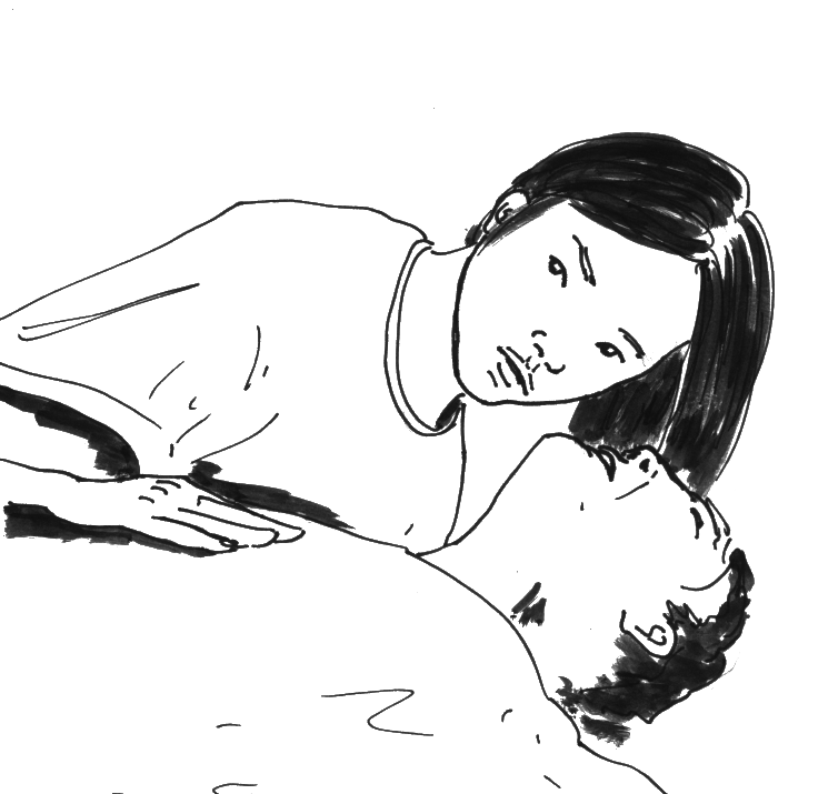 Checking respiration